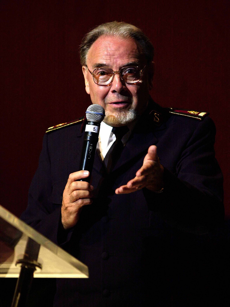 Gowans preaching at the international congress